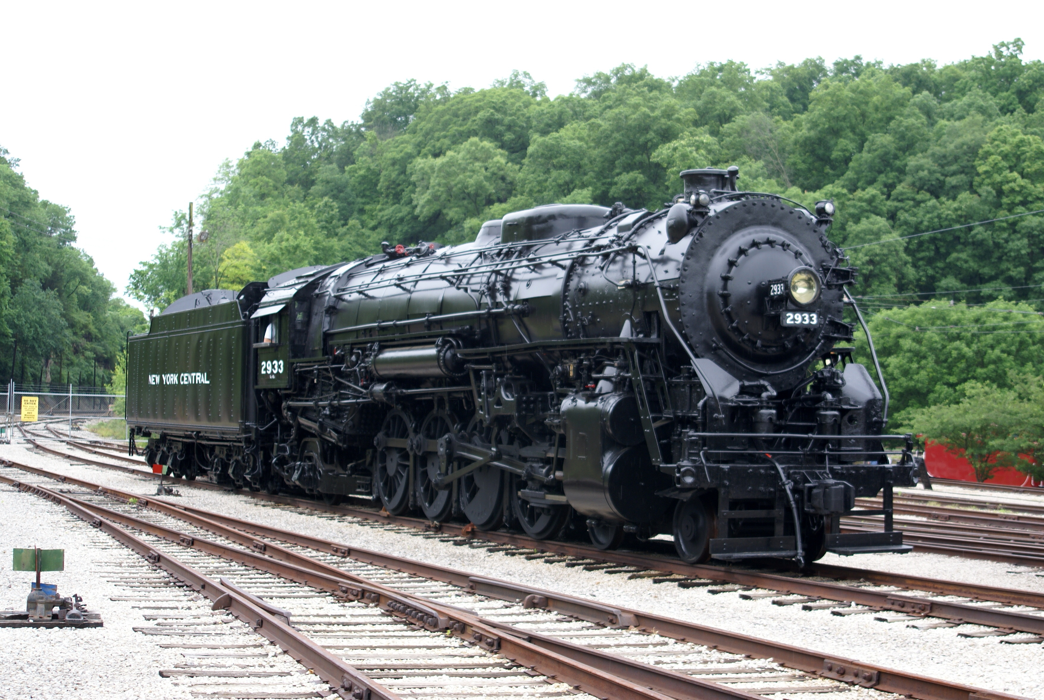 New York Central 2933, a 1929 ALCO 4-8-2 steam locomotive, preserved in operating condition at the Museum of Transportation in St. Louis, Missouri.